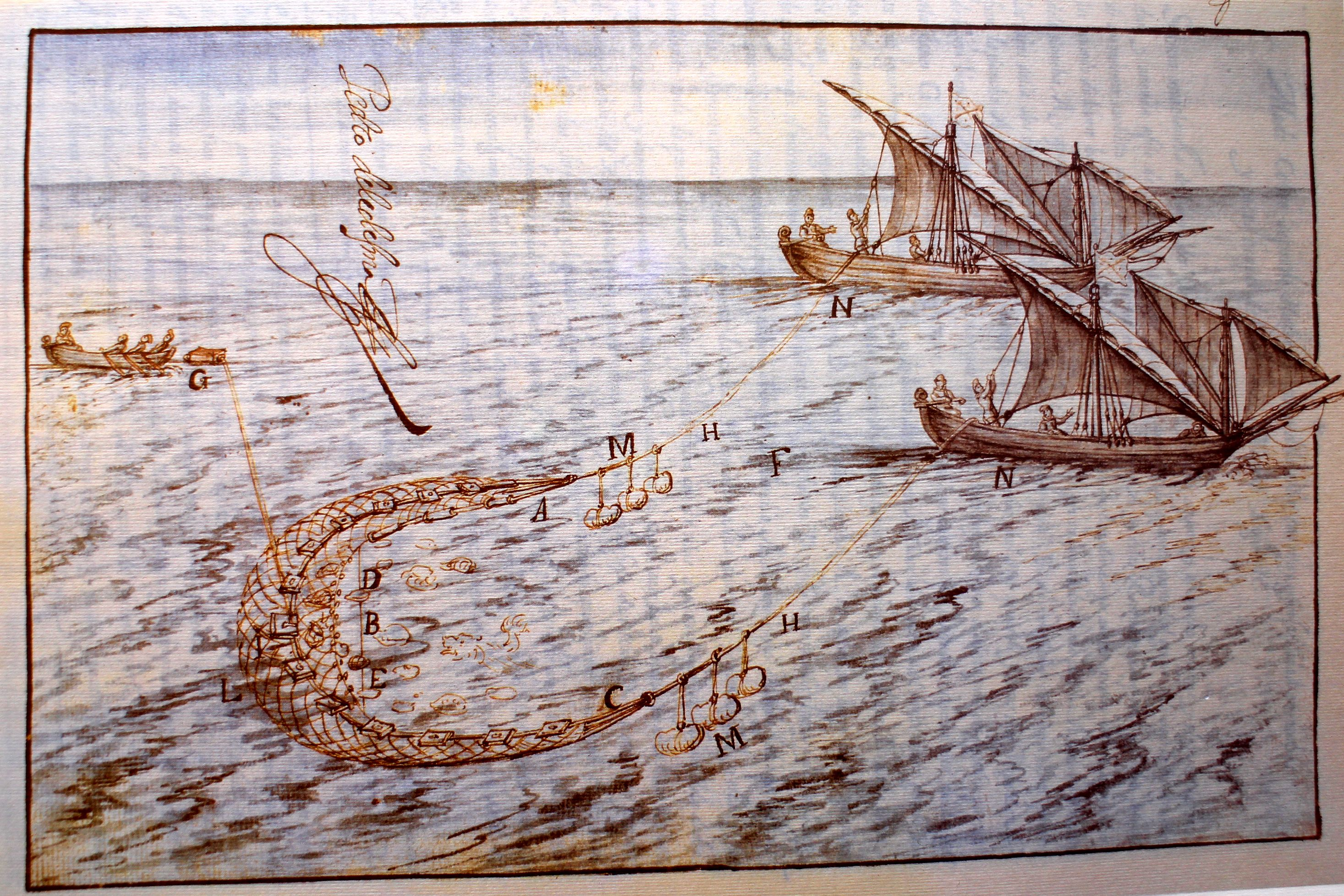 Two tartanas of Cardona expedition "fishing" oysters